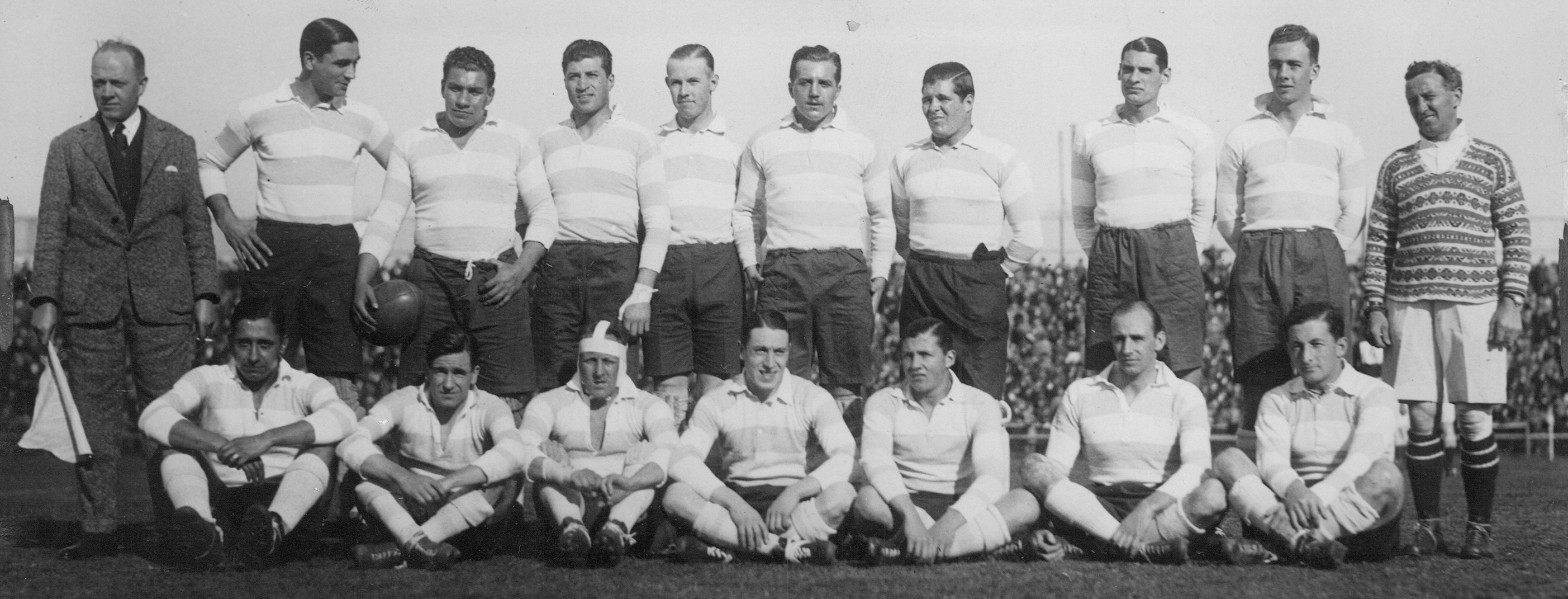 The Argentine national rugby team that played its first test (of four) v. the British Lions. Argentina lost 37-0.